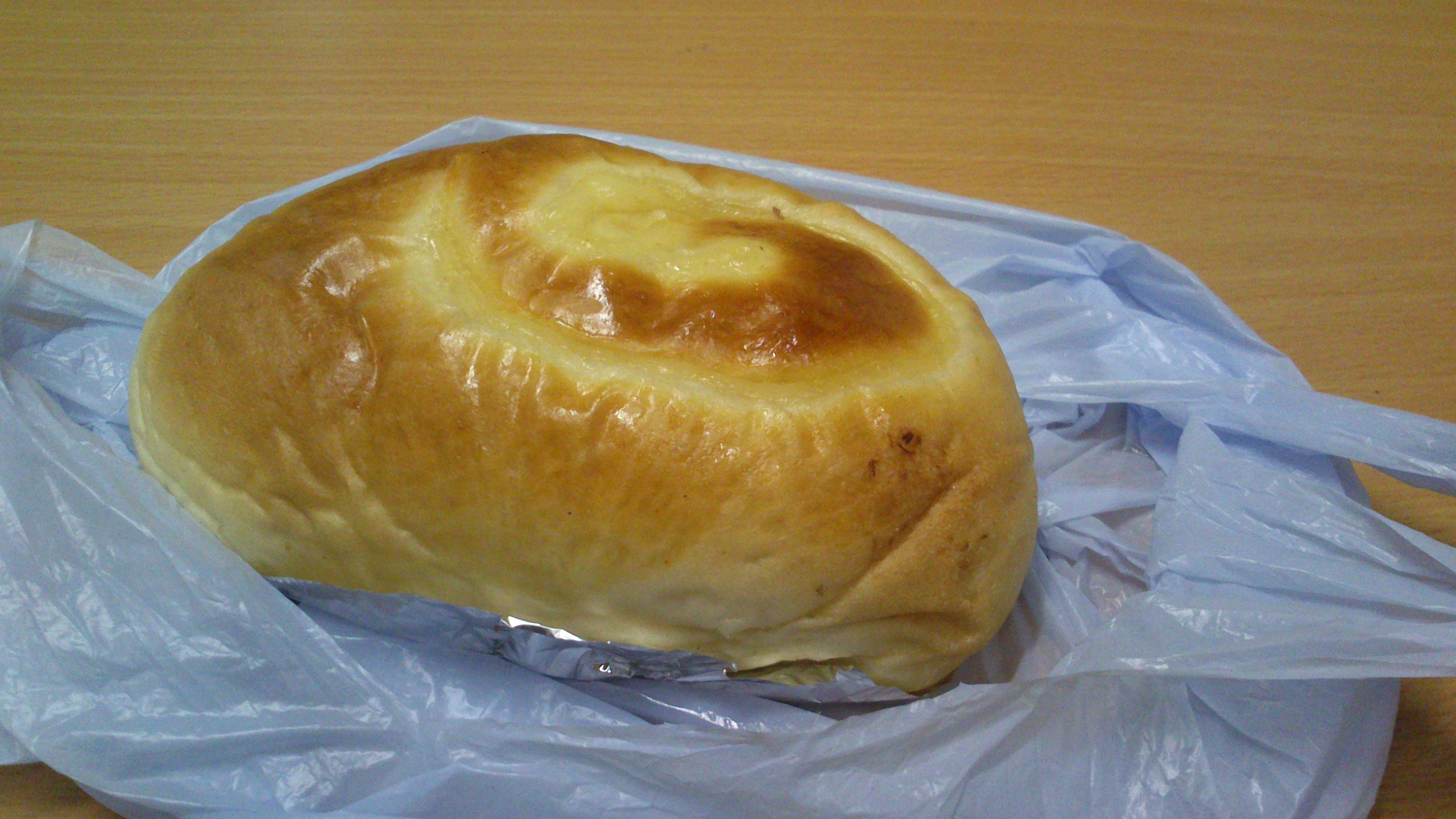 This is a tuna bun in Hong Kong.